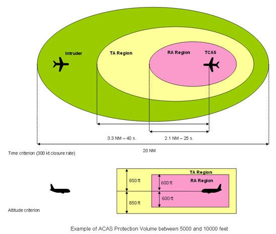 TCAS II Protection Volume